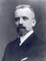 Finnish politician, officer and a diplomat Carl Enckell (1876 – 1959).